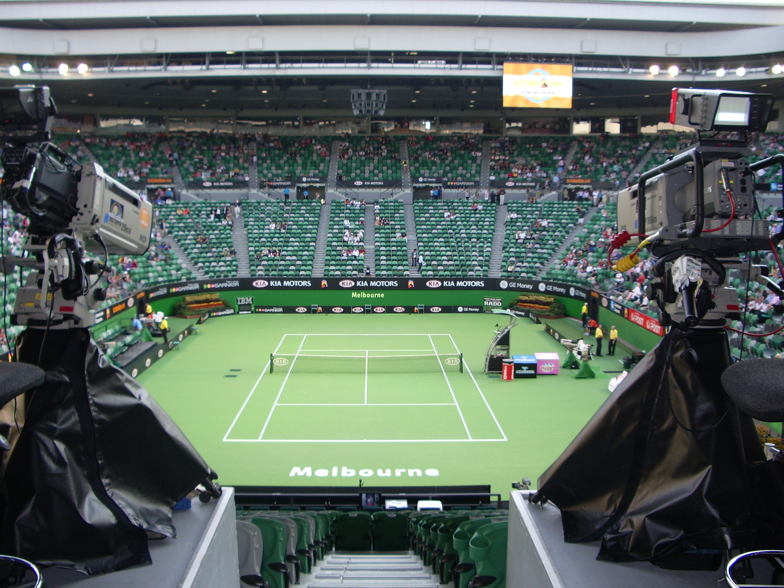 Inside Rod Laver arena, prior to an evening session.